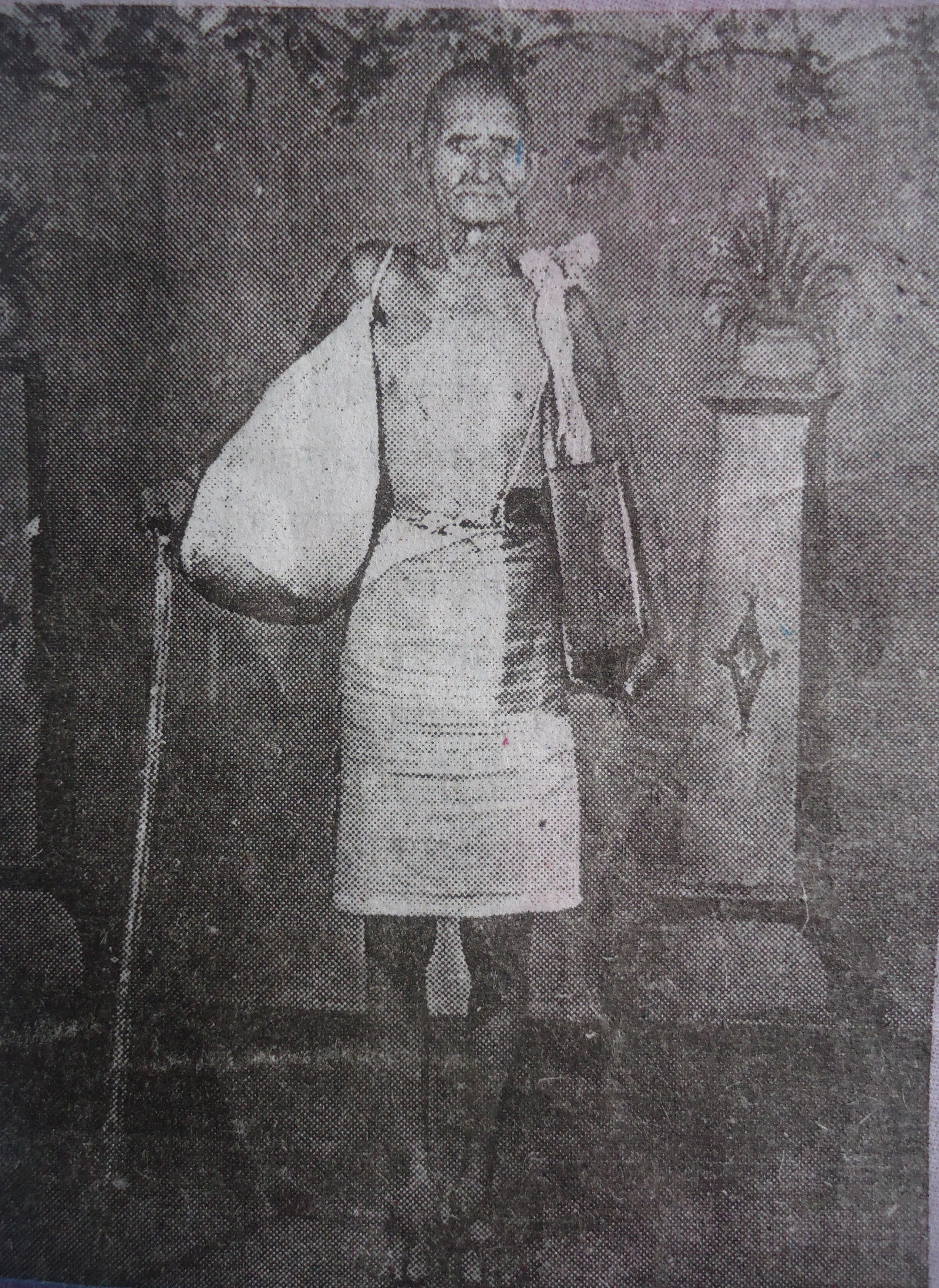 Trilochan Pokhrel is Gandhian Gorkha Freedom Fighter of India